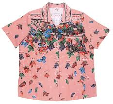 A very colourful shirt